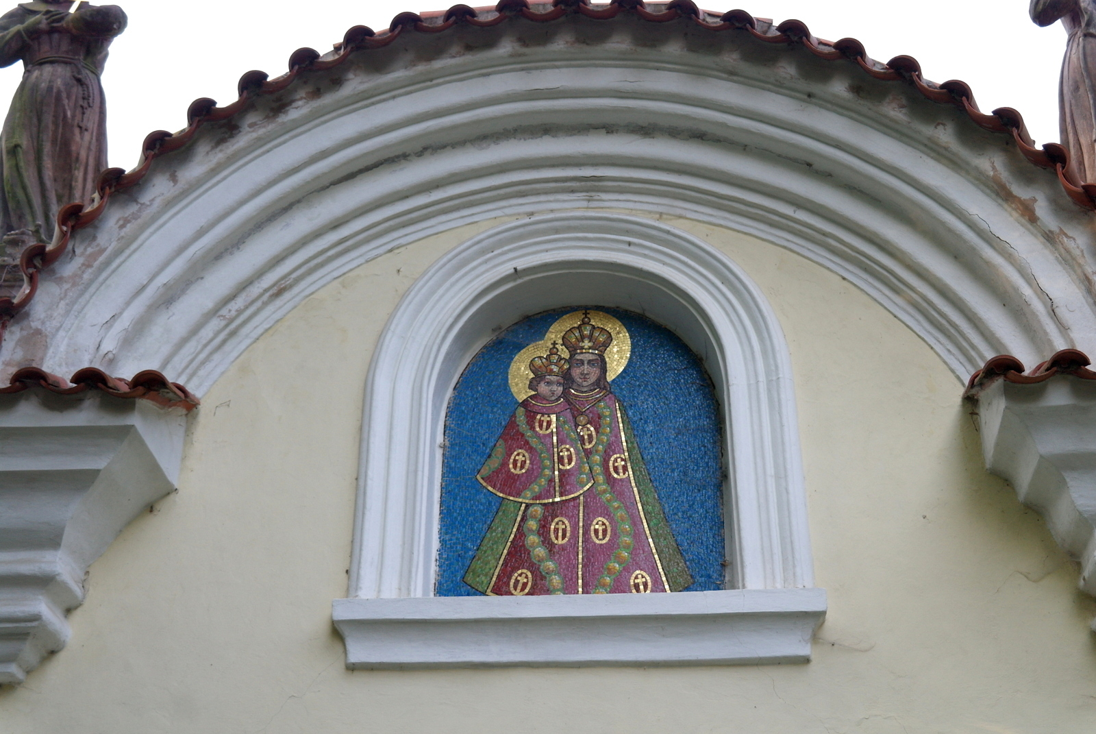 Monastery of St. Francis in Hájek, 43 Hájek, Hajek (Červený Újezd), Prague-West District. Mosaic of the Virgin Mary with the Infant Jesus.